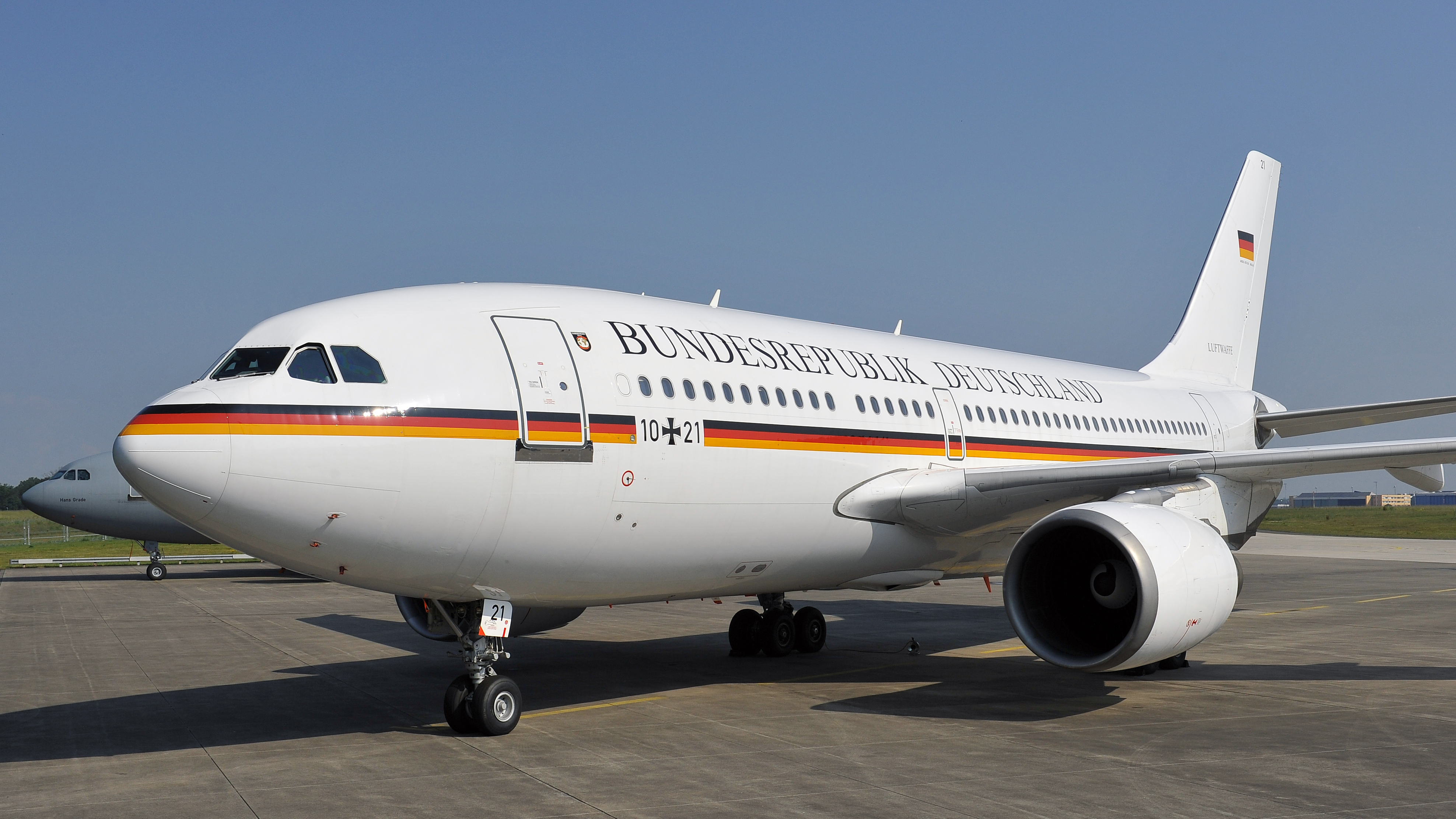 The german Goverment A 310-300 before its transition in the A310 ZERO-G.